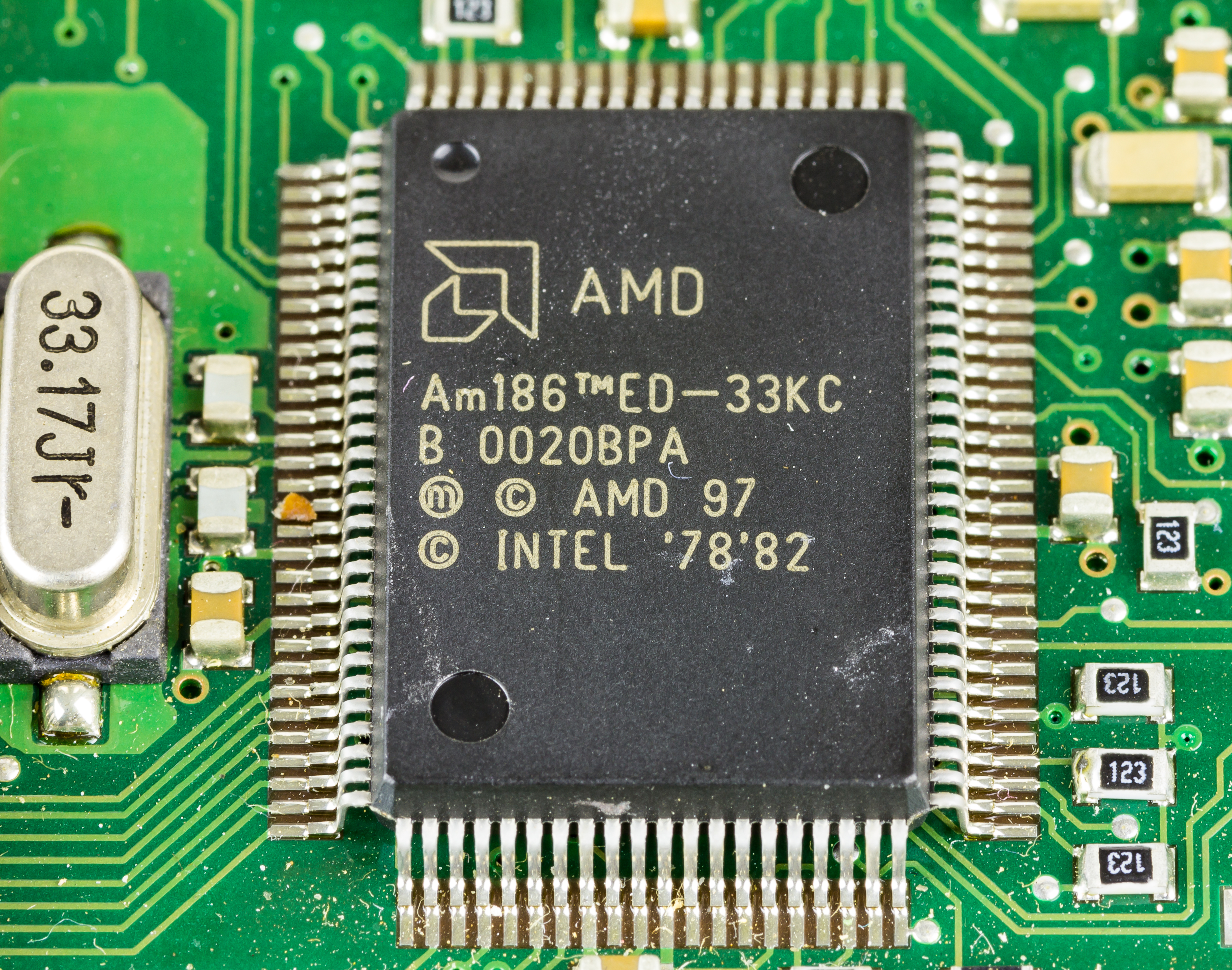 1&1 NetXXL powered by FRITZ! - AMD AM186ED-33KC (microcontroller) on mainboard